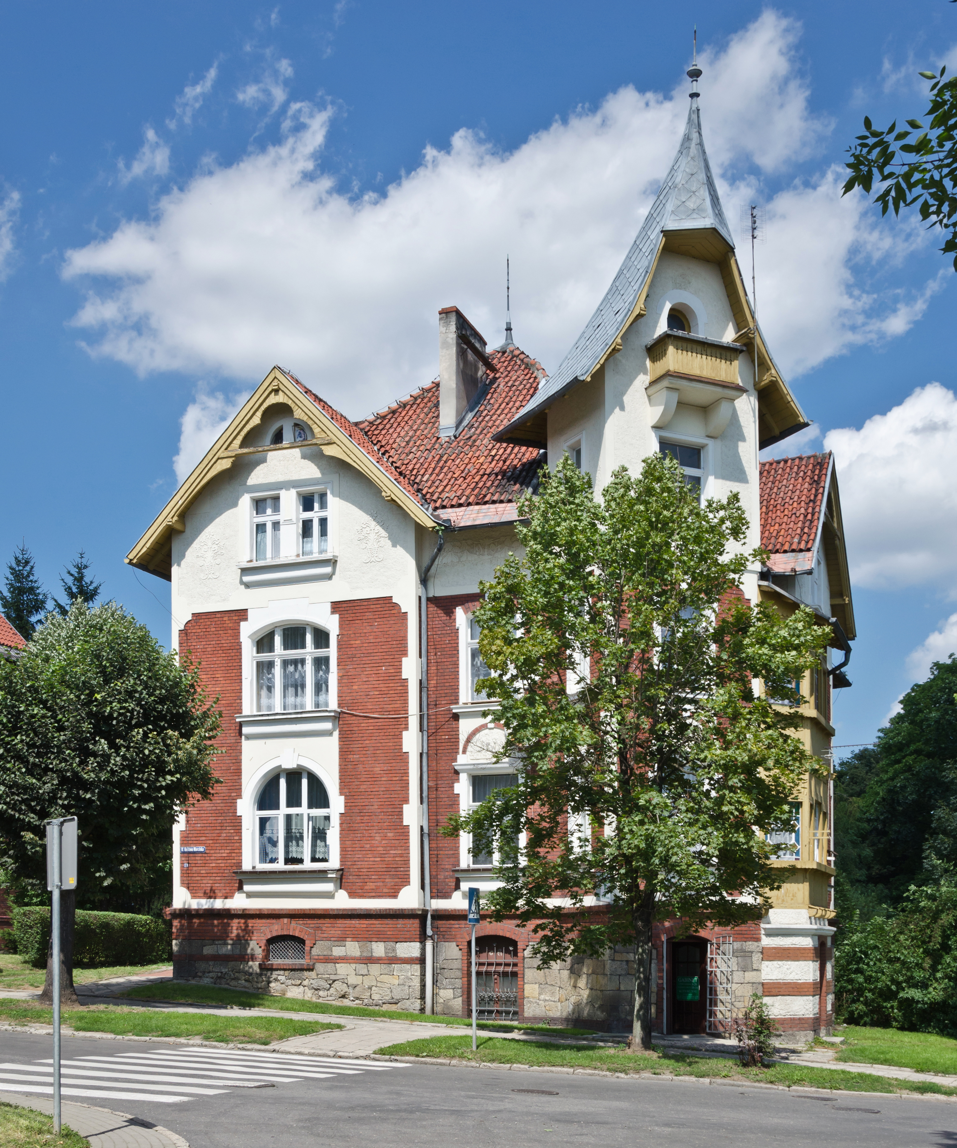 Morcinka Street in Kłodzko